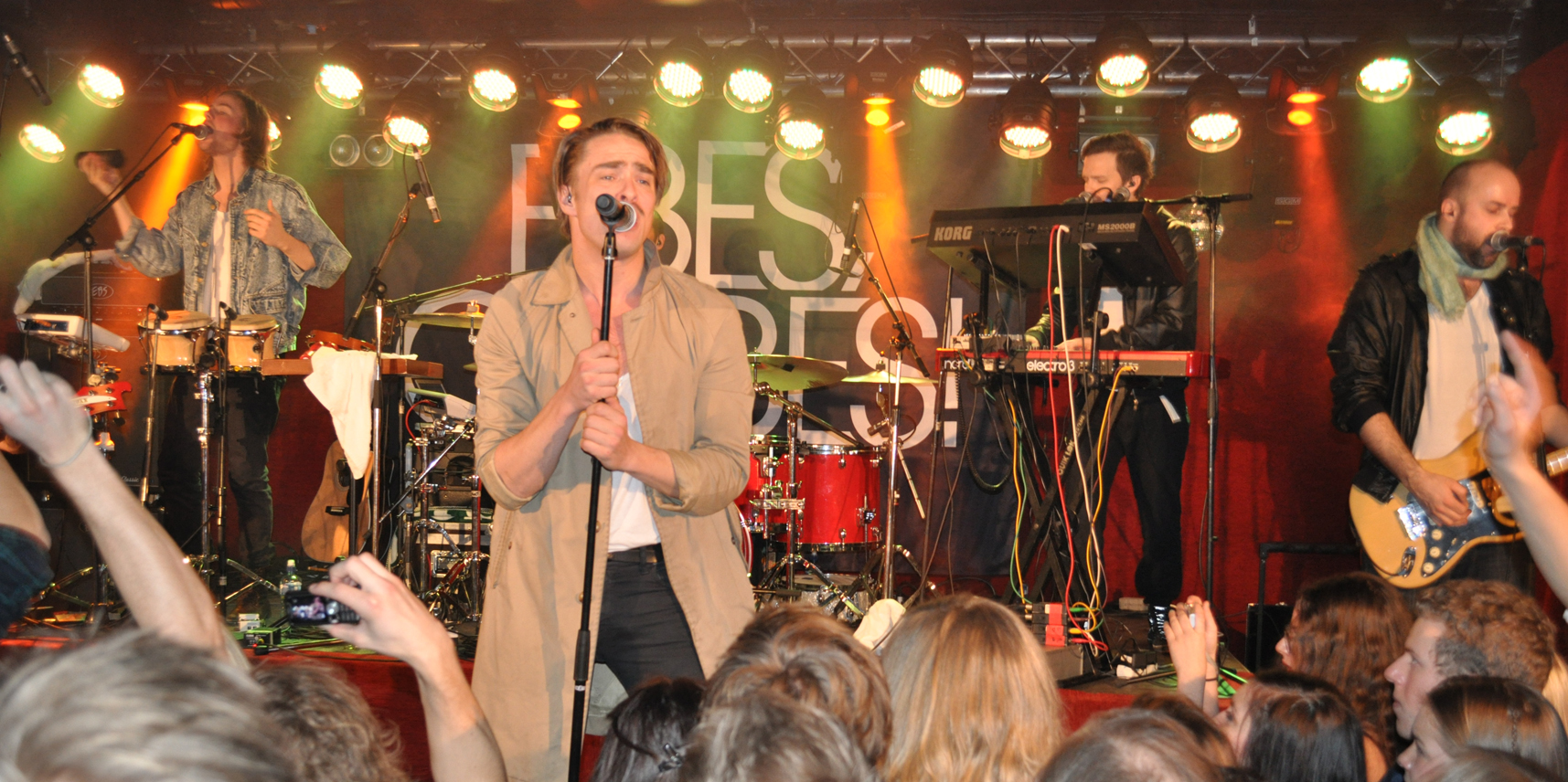 Fibes! Oh Fibes! in concert. This was "Bygget" in Åre January 2010.